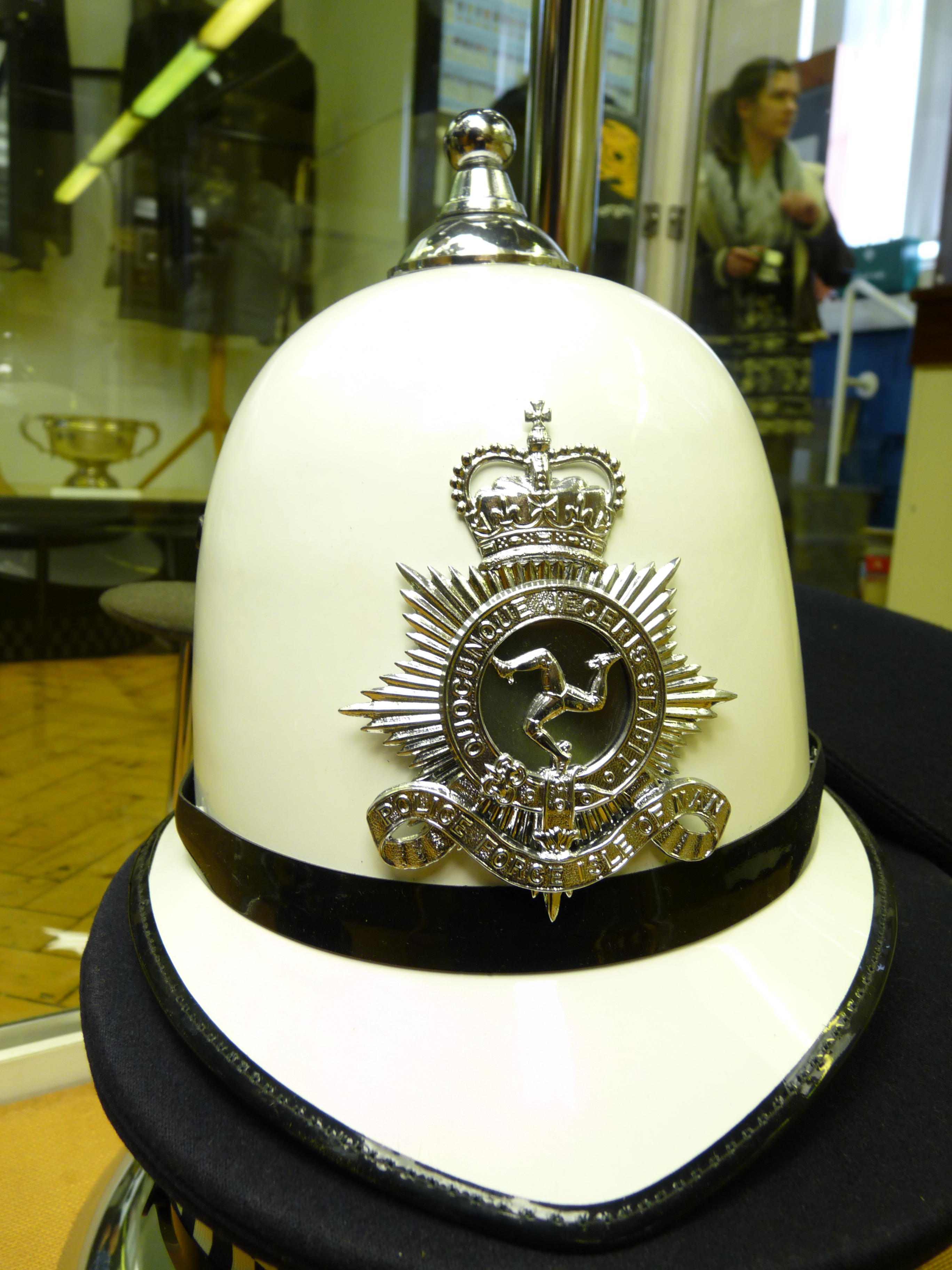 A helmet from the Police Force of the Isle of Man in the collection of the West Midlands Police Musuem, Sparkhill Police Station, Birmingham.